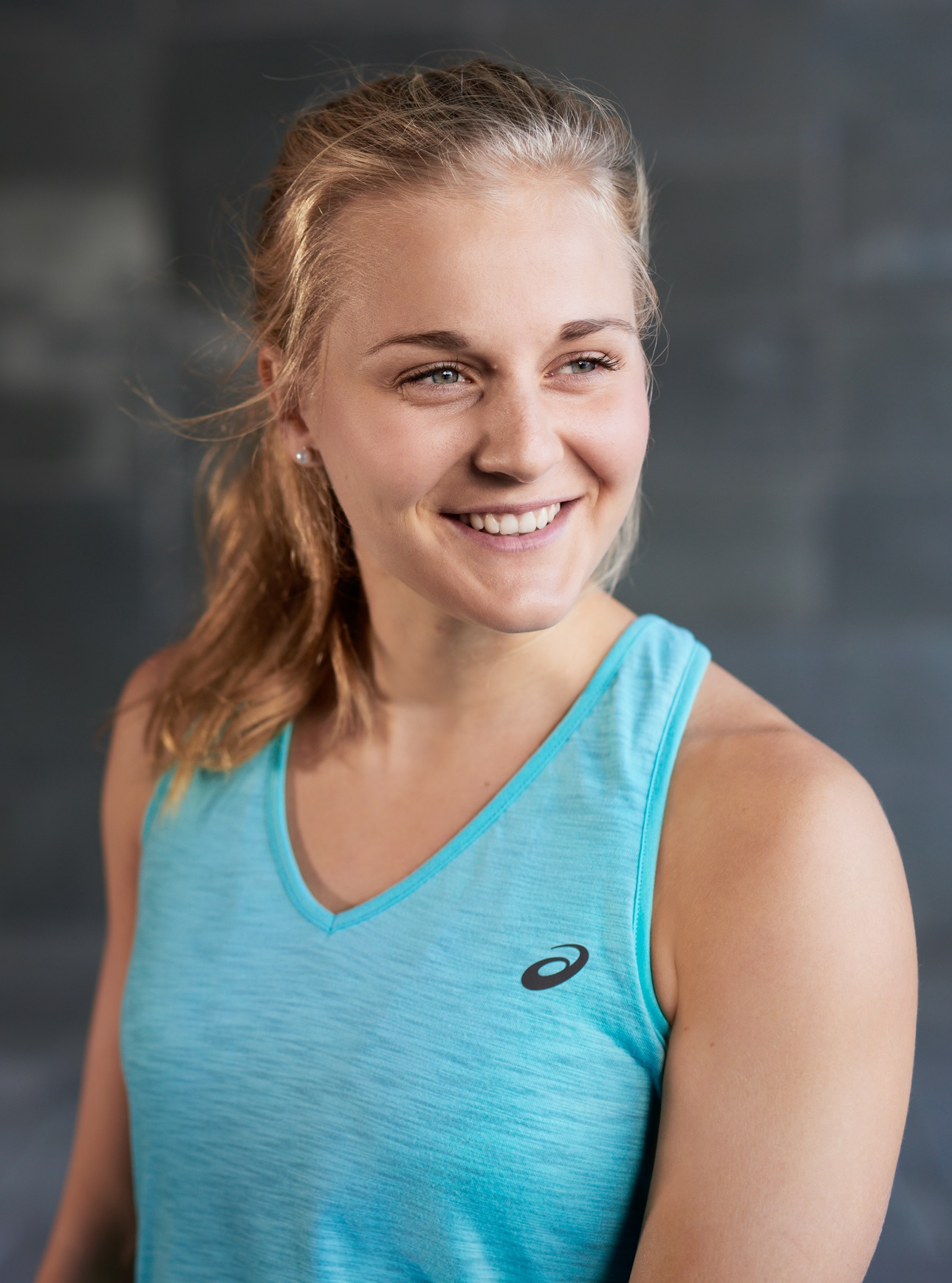 Swedish cross-country skier Stina Nilsson in a promotional photo for Ascis.